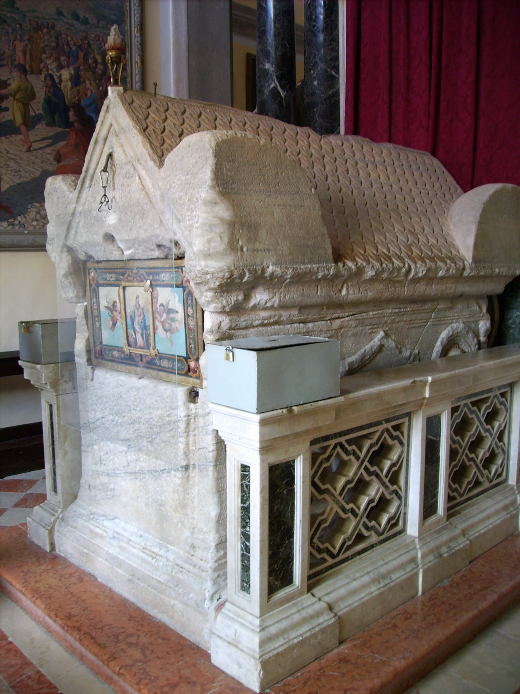 Sarcophagus of Saint Euphemia in Basilica Saint Euphemia in Rovinj, Croatia